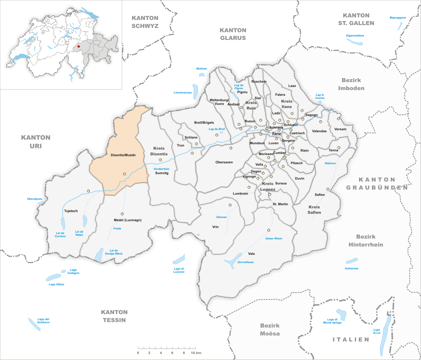 Municipality Disentis/Mustér